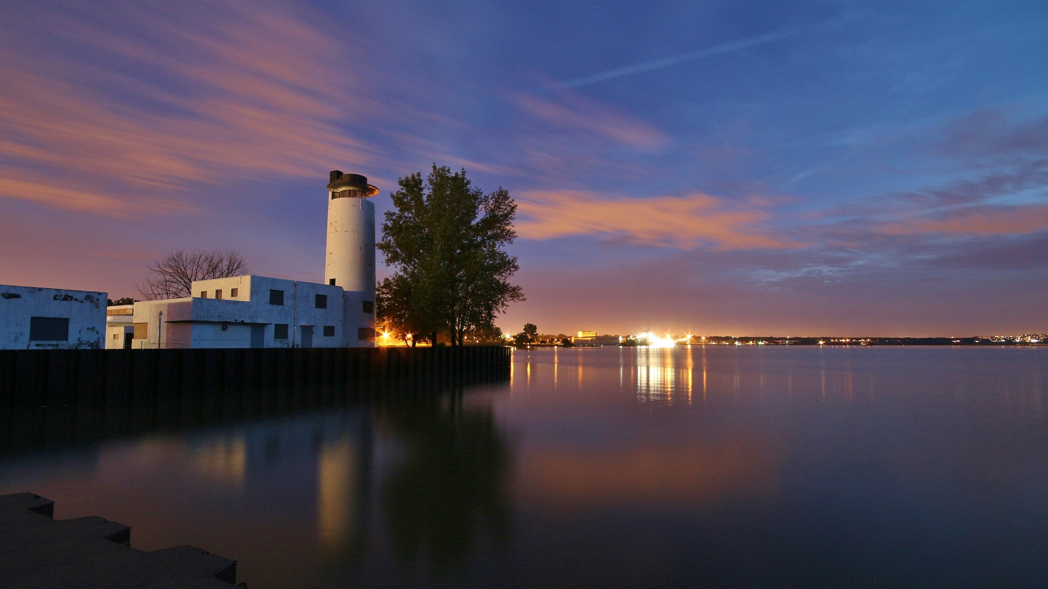 Sunset from Wendy Park at Whiskey Island in Cleveland, Ohio, USA